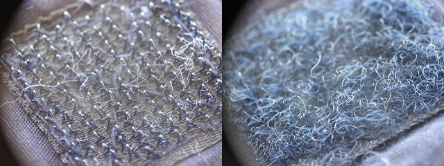 Close up image of Velcro.